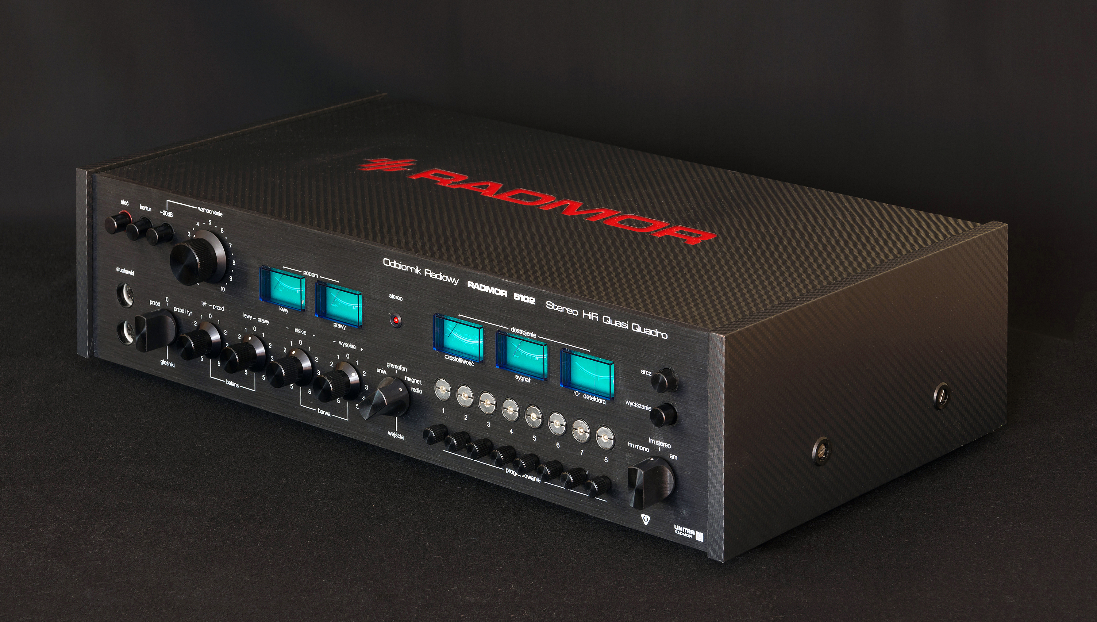 Radmor 5102 stereo receiver